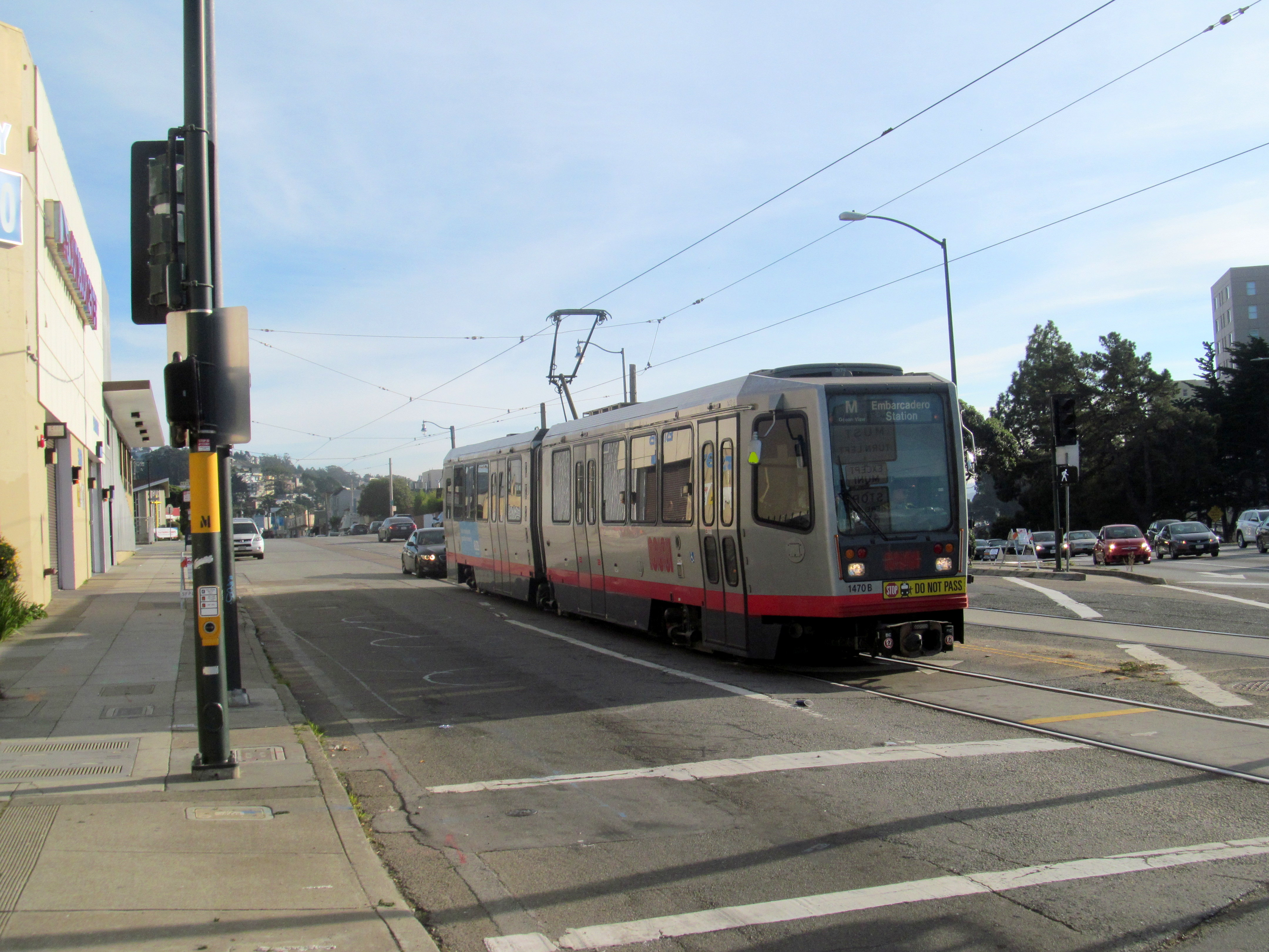 Northbound train at 19th Avenue and Junipero Serra station in December 2017